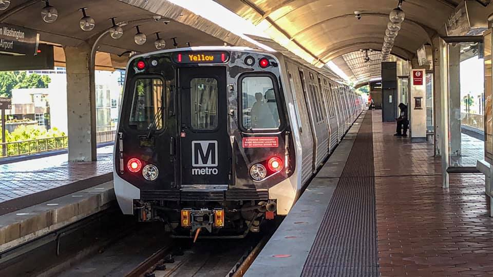 WMATA Kawaski 7000 Series on the Yellow Line at Reagan National Airport on the Center Track